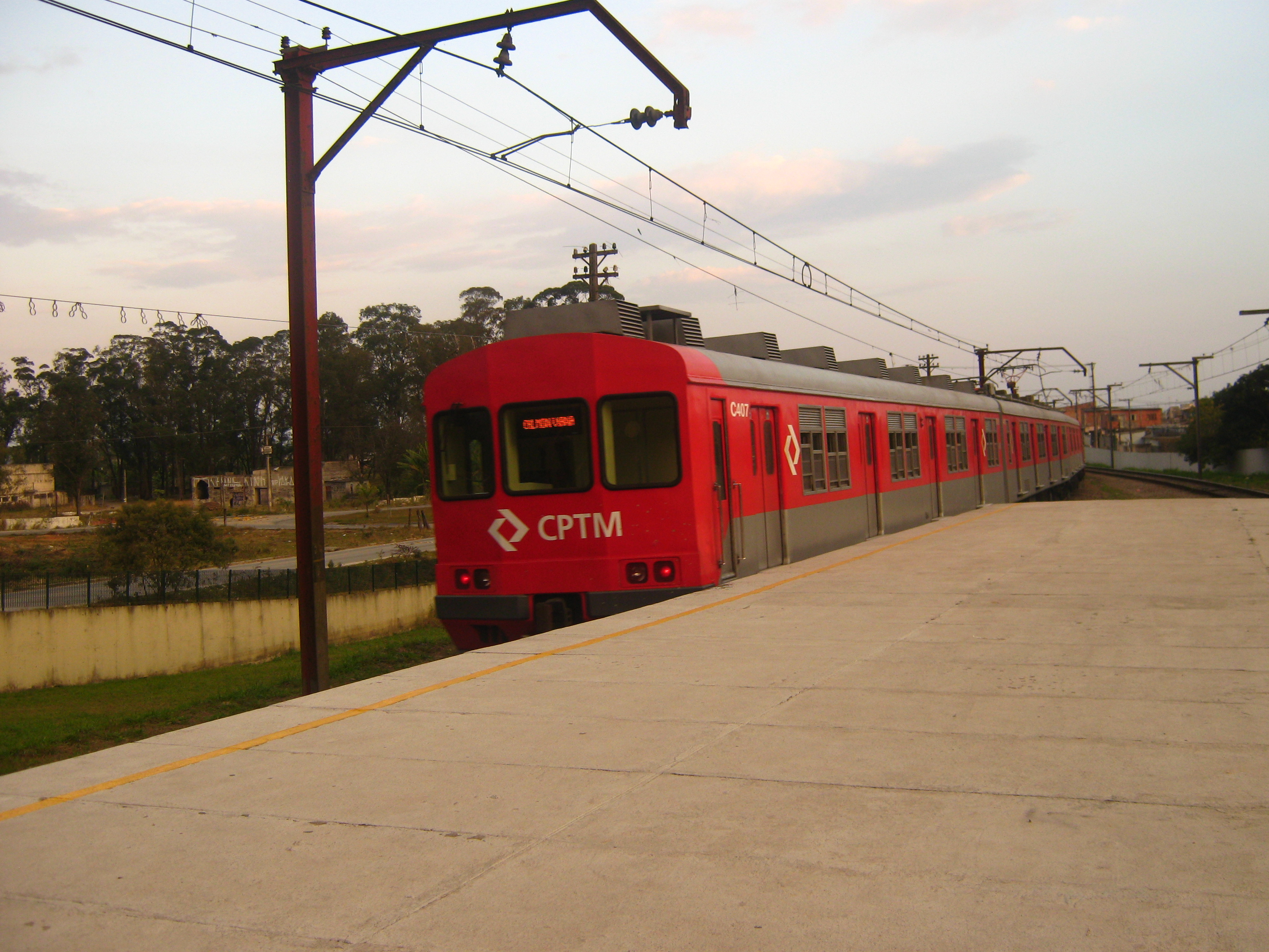 The 4400 Séries manufactured by Cobrasma/FNV and refurbished for T'trans